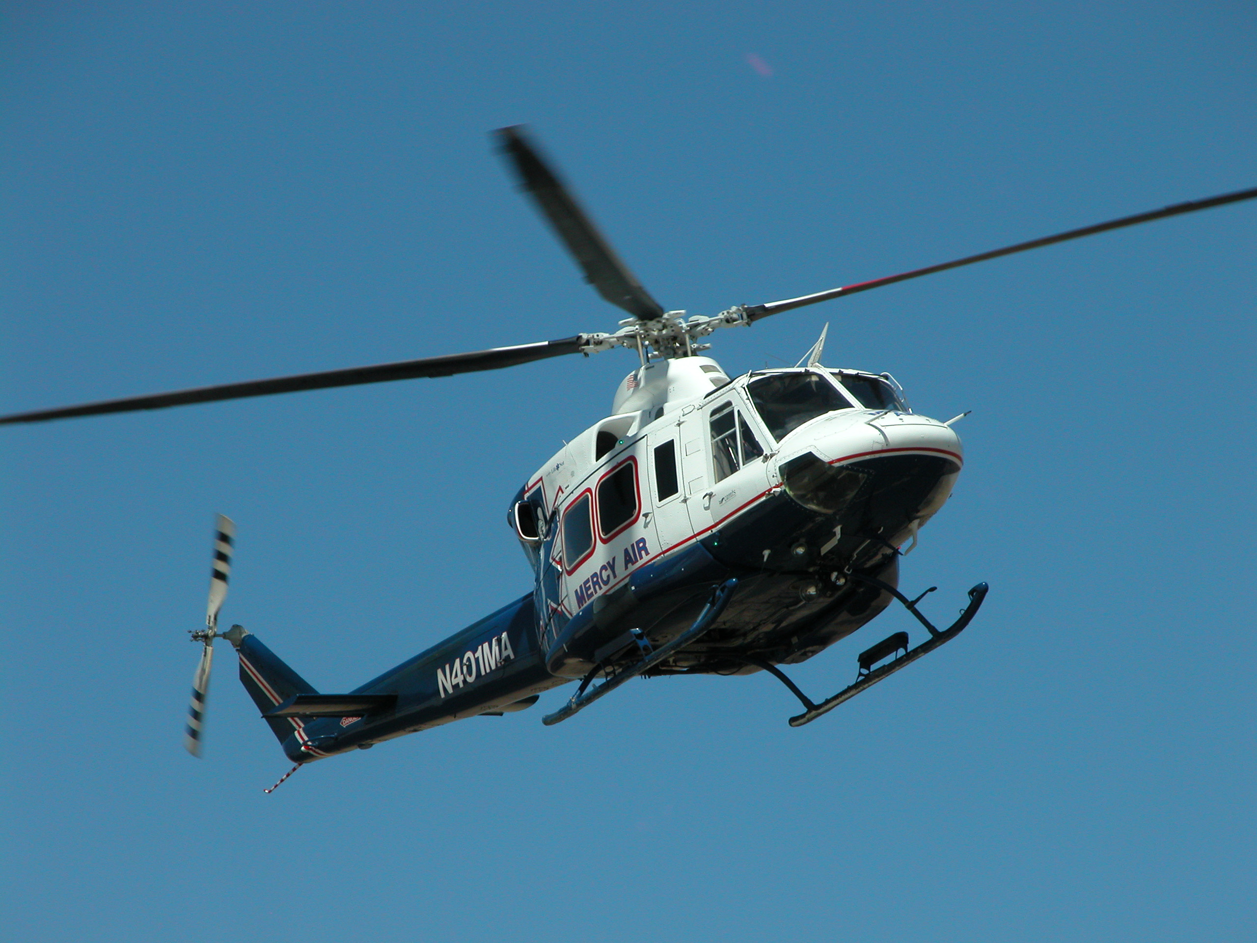 Mercy Air Bell 412 arrives back at Base 14, at the Mojave Spaceport